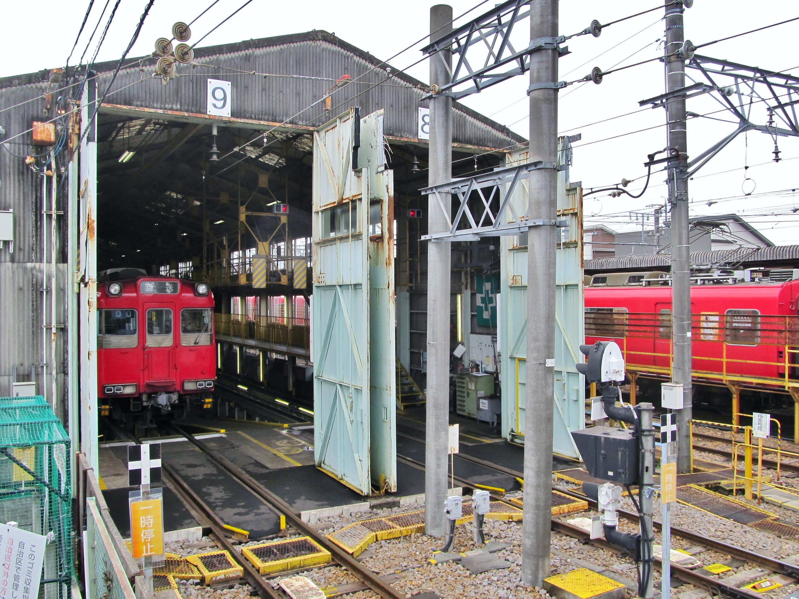 Nagoya Railroad Inuyama Inspection yard Sanage branch